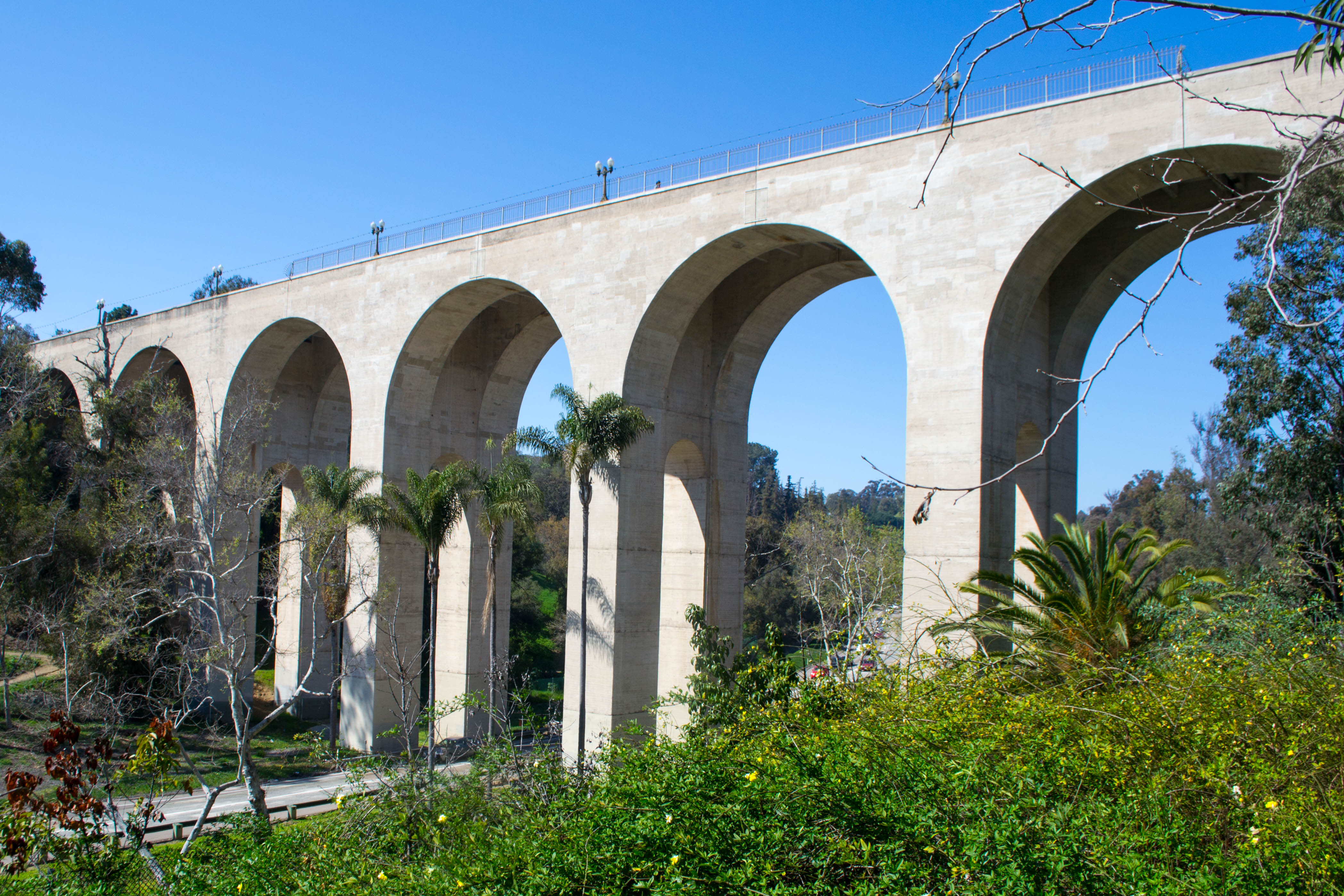 The eastt side of the Cabrillo Bridge